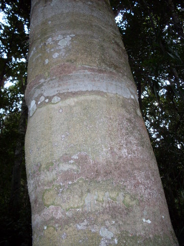 Symplocos stawellii, approx 30 metres tall, growing by the Hacking River, Australia